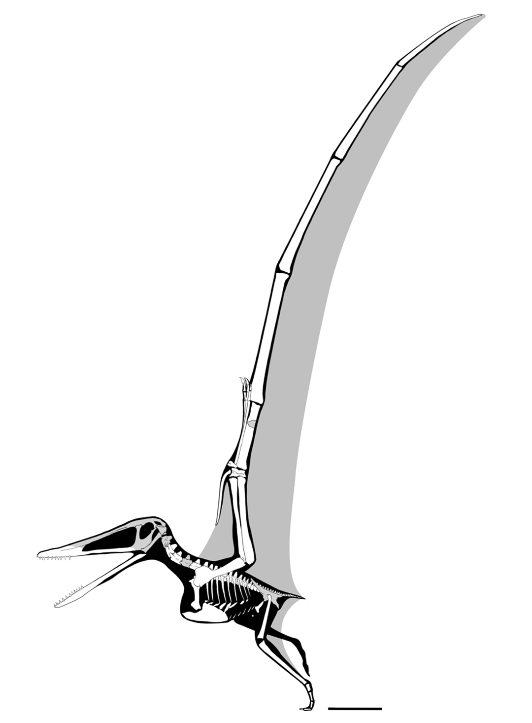 Reconstructed silouette of Mimodactylus libanensis showing the long wings regards the body. Scale bar: 50 mm.